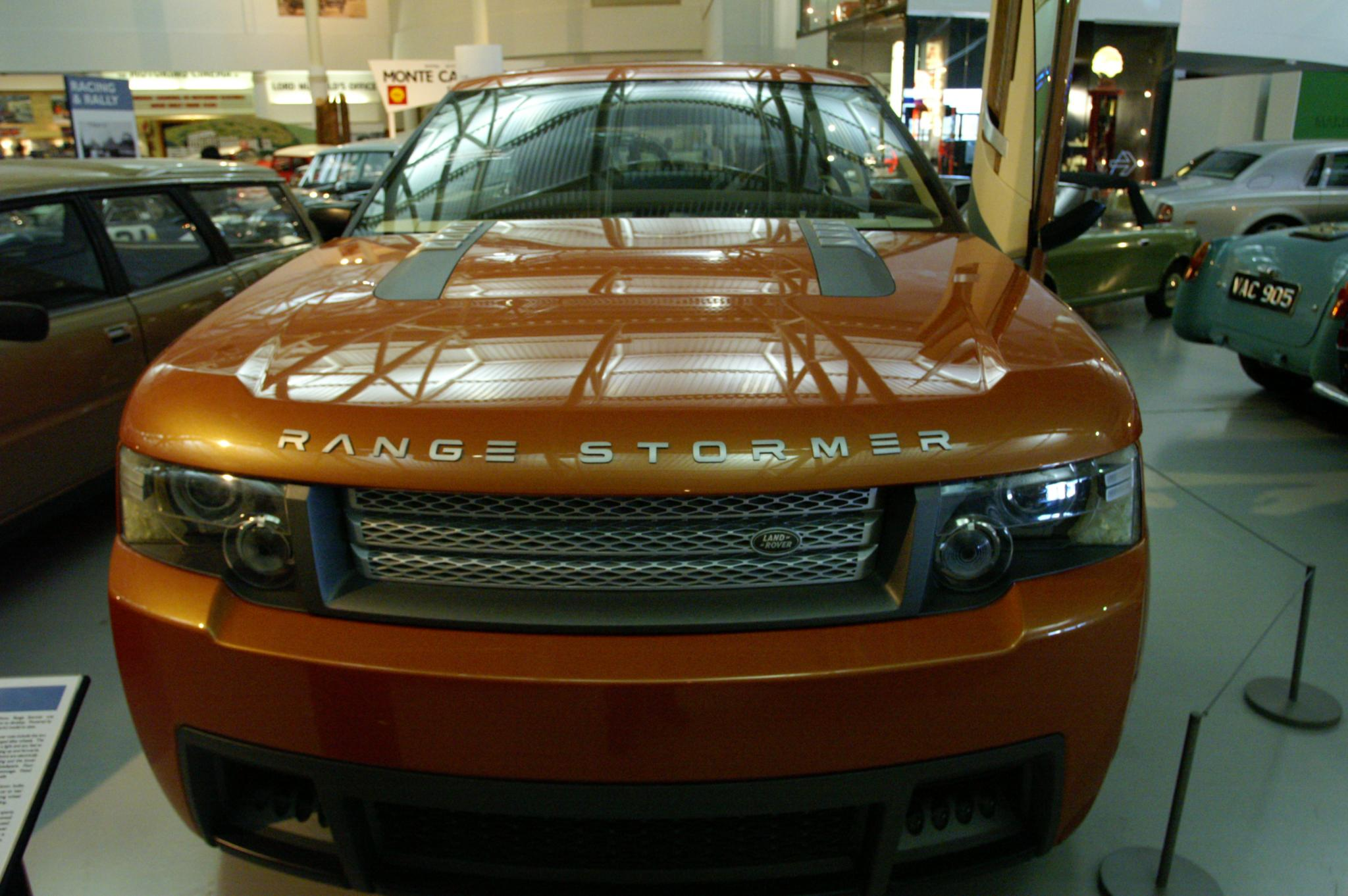 Heritage Motor Centre, Gaydon, Warwickshire Concept that paved the way for the Range Rover Sport